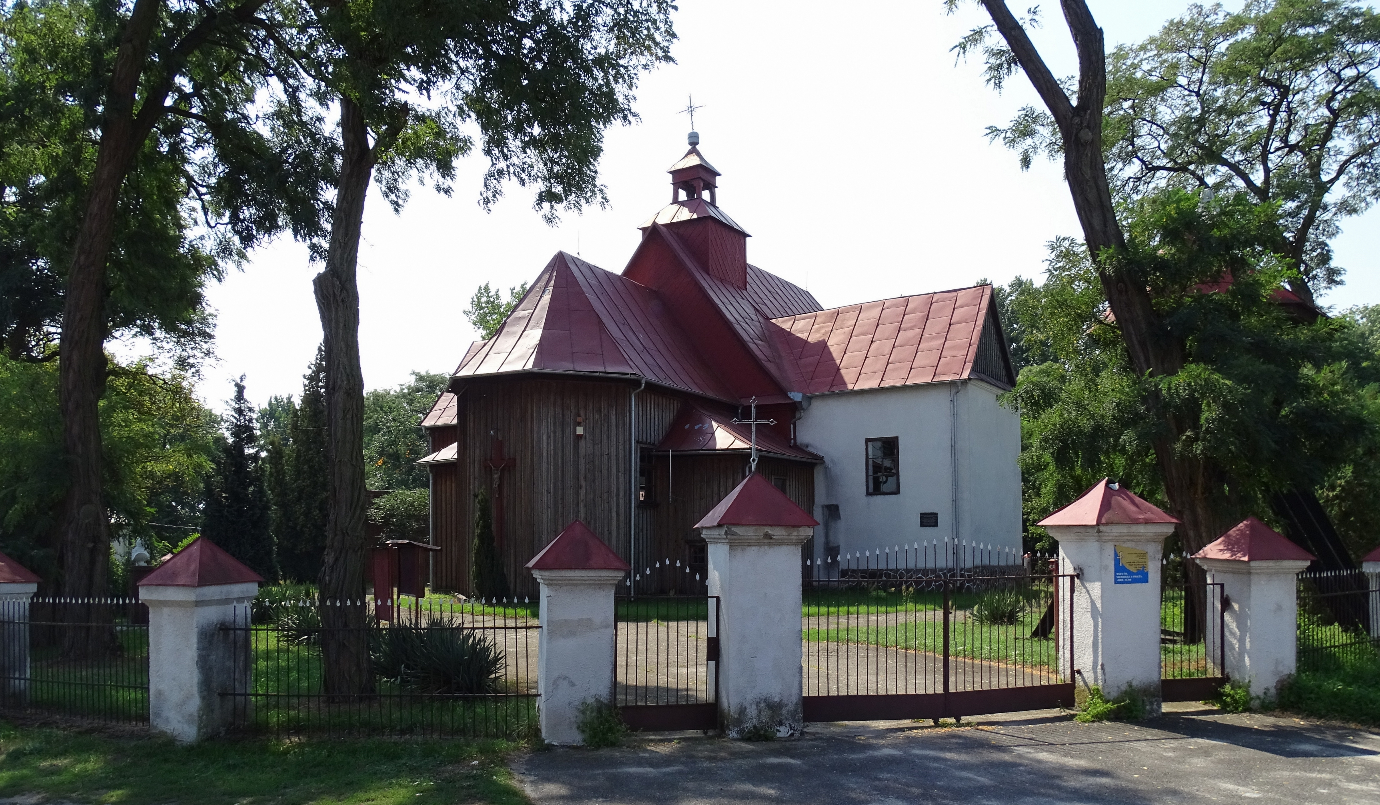 Golina, Greater Poland. Church of Saint James. Erected in 1765.